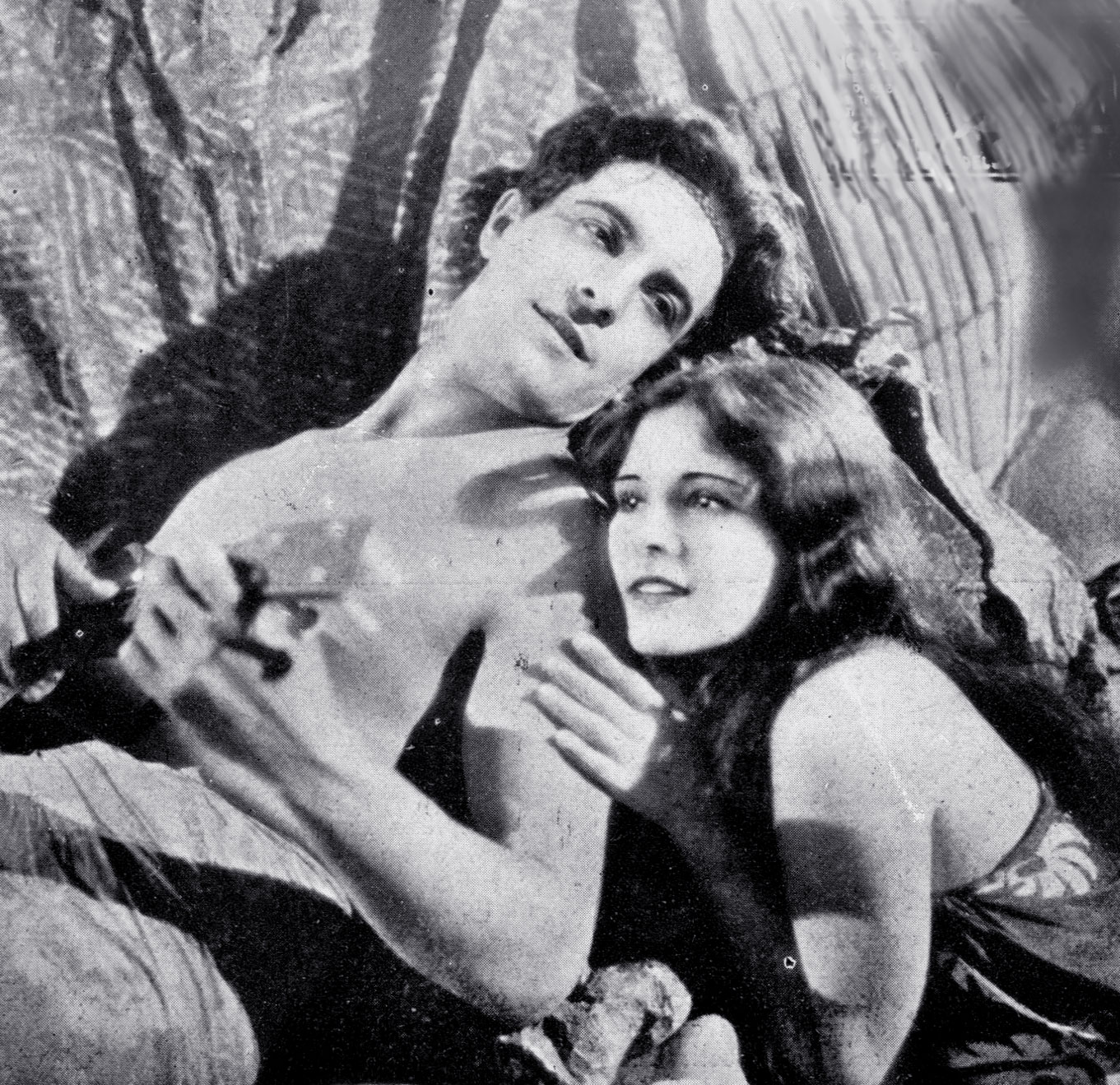 Ramon Novarro and Dorothy Janis in The Pagan, directed by W. S. Van Dyke (1929)